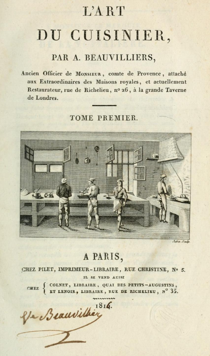 Title page of Antoine Beauvilliers, L'art du Cuisinier, 1814